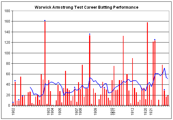 Test batting stats of Warwick Armstrong. Self made. Line is average of last 10 innings, blue dots are not outs